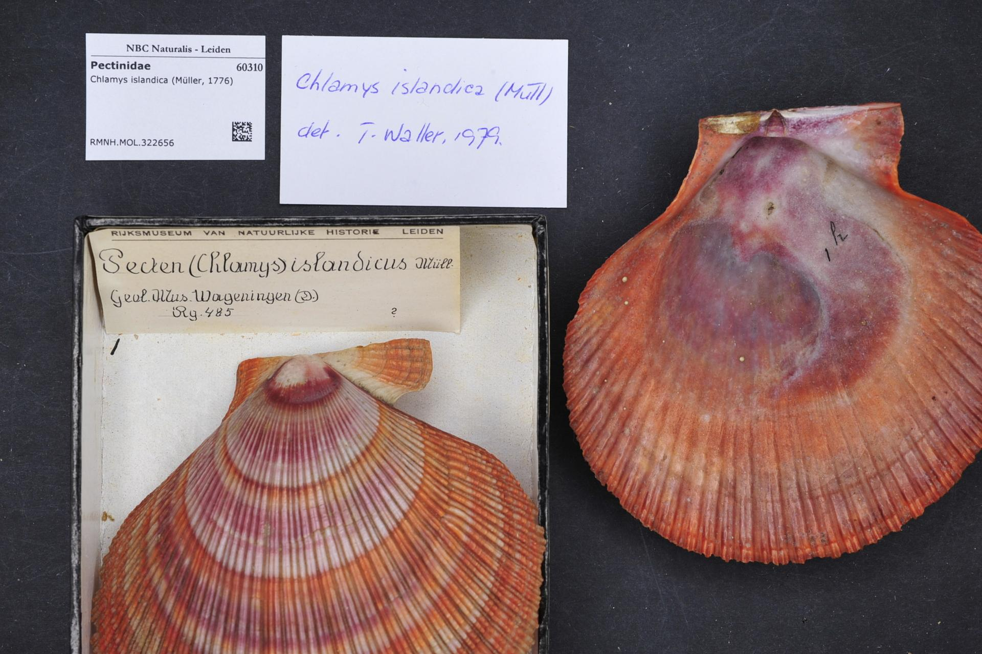 Chlamys islandica (Müller, 1776)